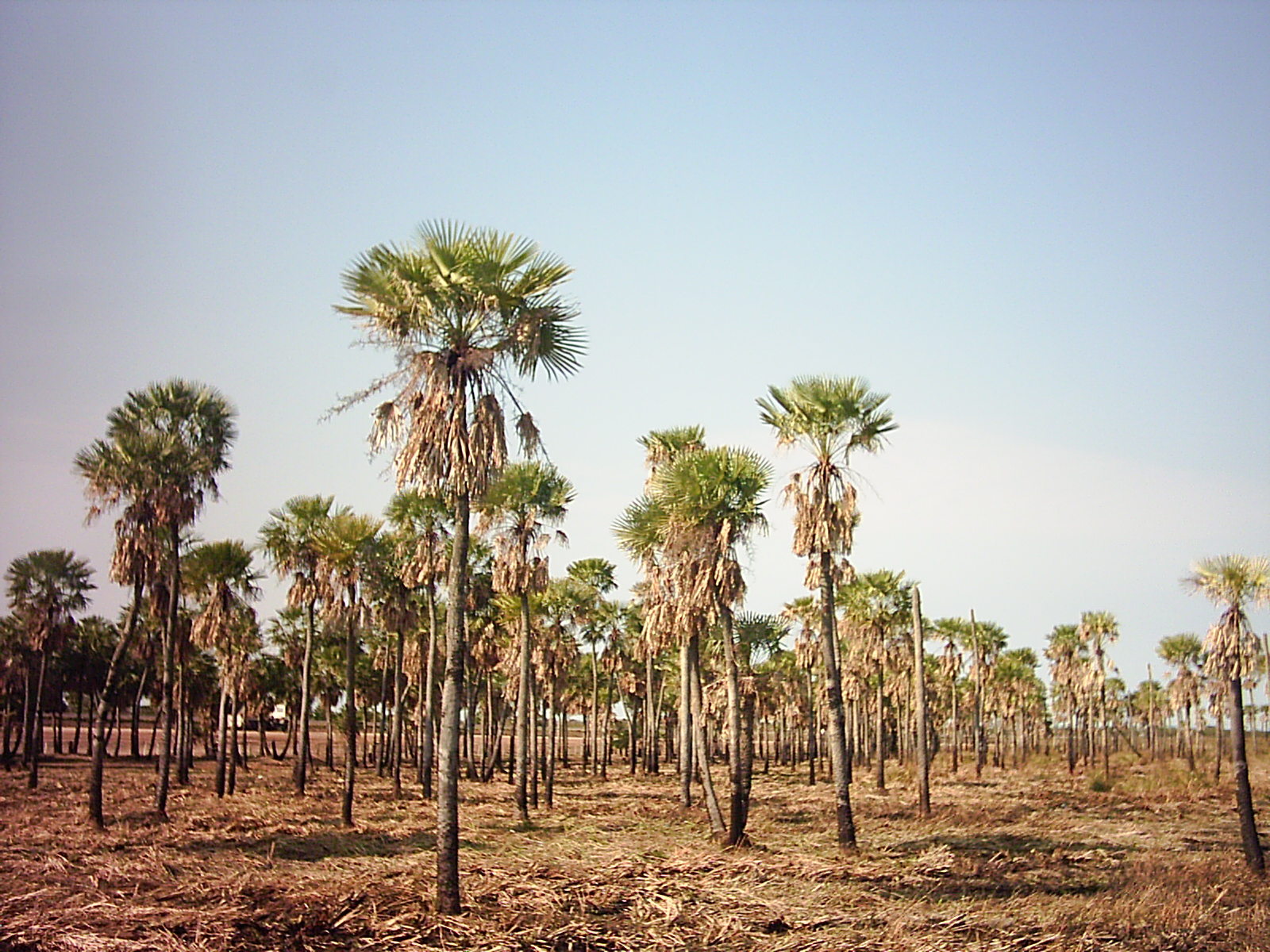 Palms tree near Resistencia city access (Chaco province, Argentina). This is a very common landscape in South Chaco. This photo is taken from Monte Alto bourough in August, because of the month grass is quite dry.